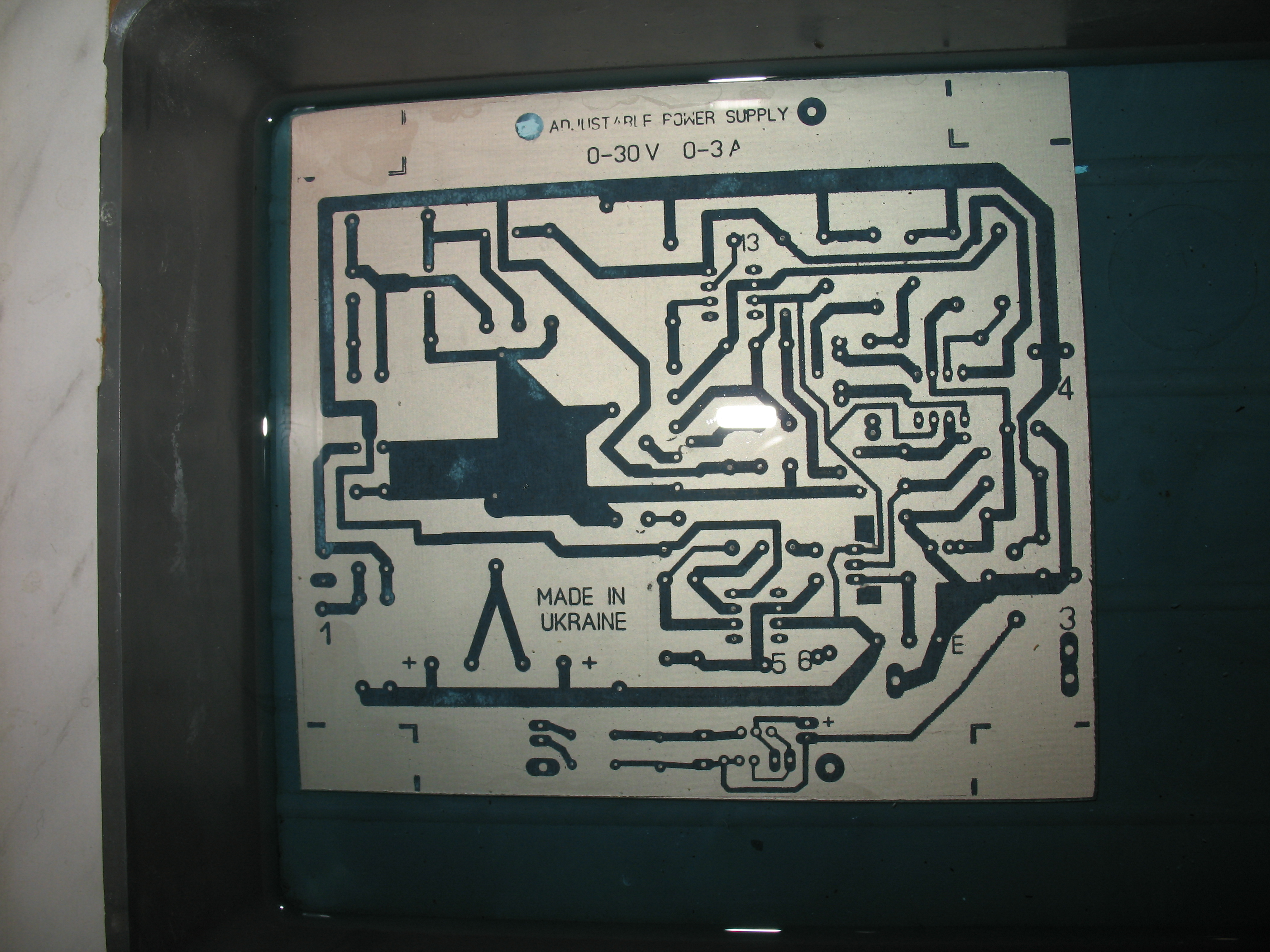 PCB etching in a solution of ammonium sulphate